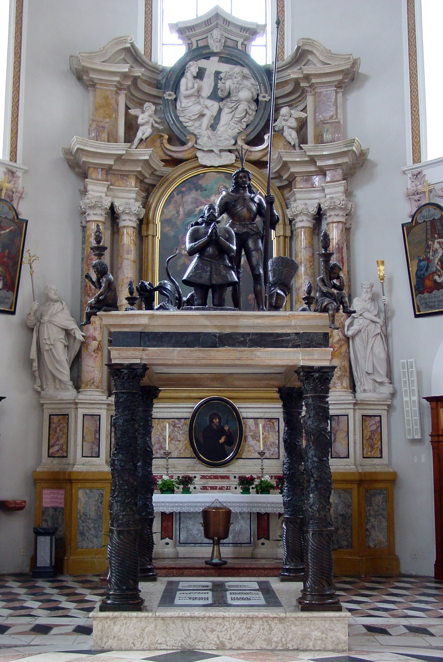 Cathedral of St. James in Innsbruck, Austria, Tomb of Archduke Maximilian